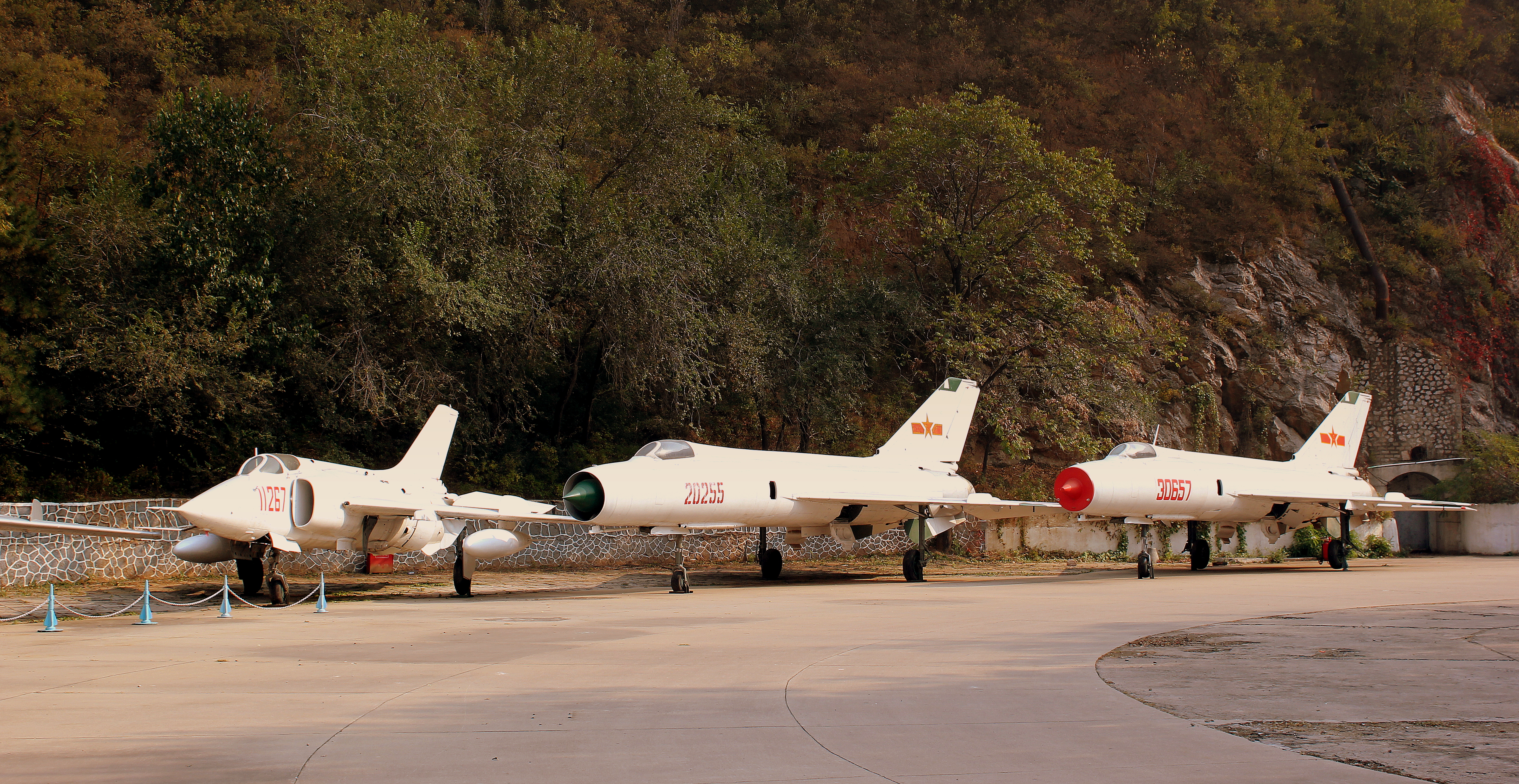 SHENYANG FIGHTER JET AT THE DATANGSHAN AVITION MUSEUM BEIJING CHINA OCT 2013